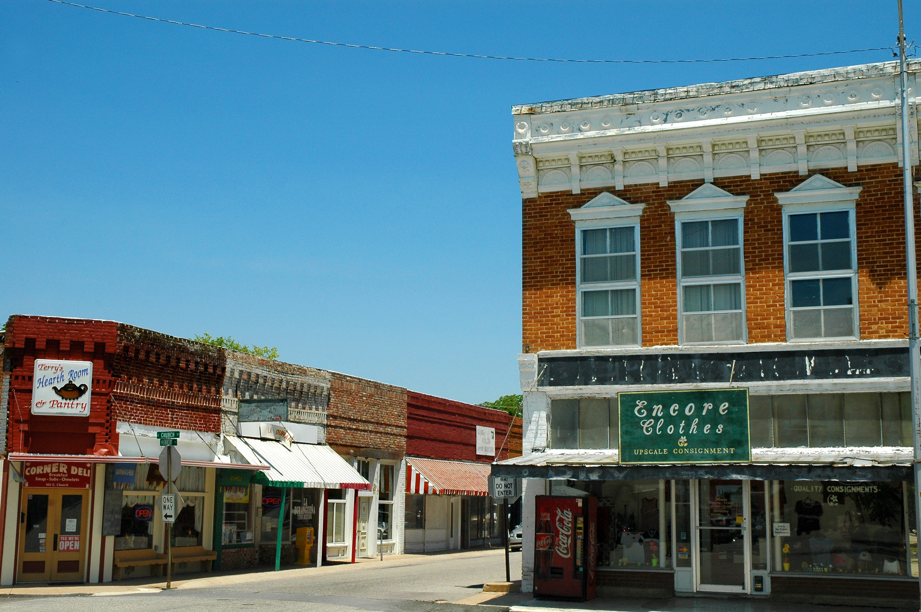 Downtown Berryville, Arkansas, USA